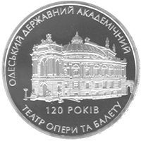 Coin of Ukraine